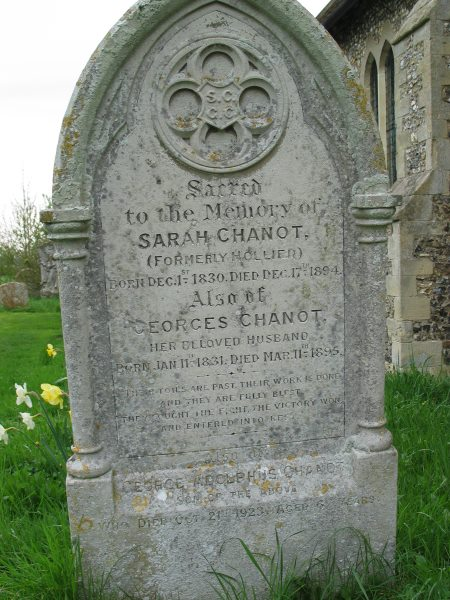 The grave of Sarah and Georges Chanot III in St Mary's churchyard in Sydenham in Oxfordshire